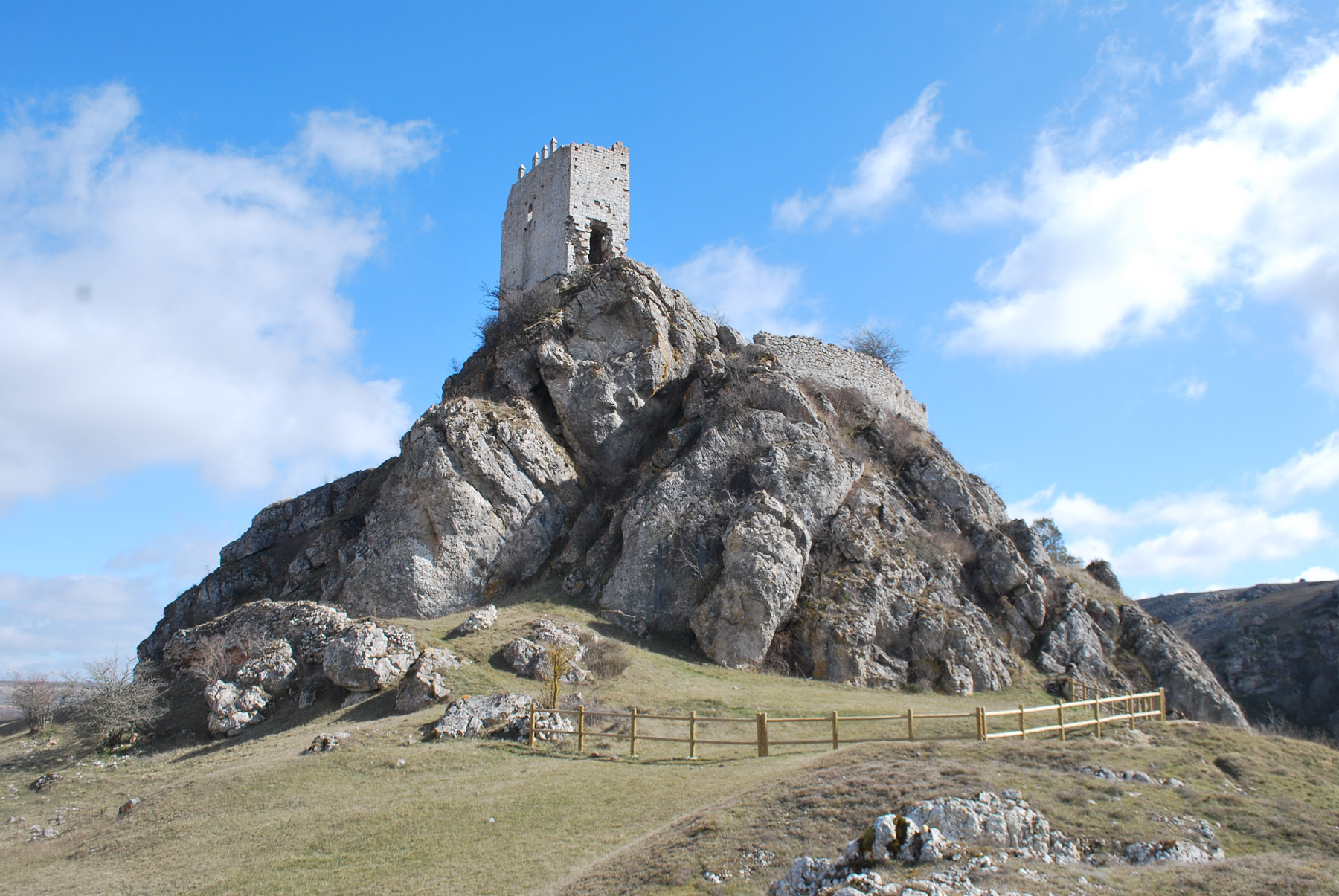 Castle of Úrbel del Castillo (Burgos, Spain), view from the West. On the top of the monadnock is the tower; eight meters below the tower is a walled terrace; in the base of the monadnock are remains of a thick wall, where was probably settled the rainwater tank.